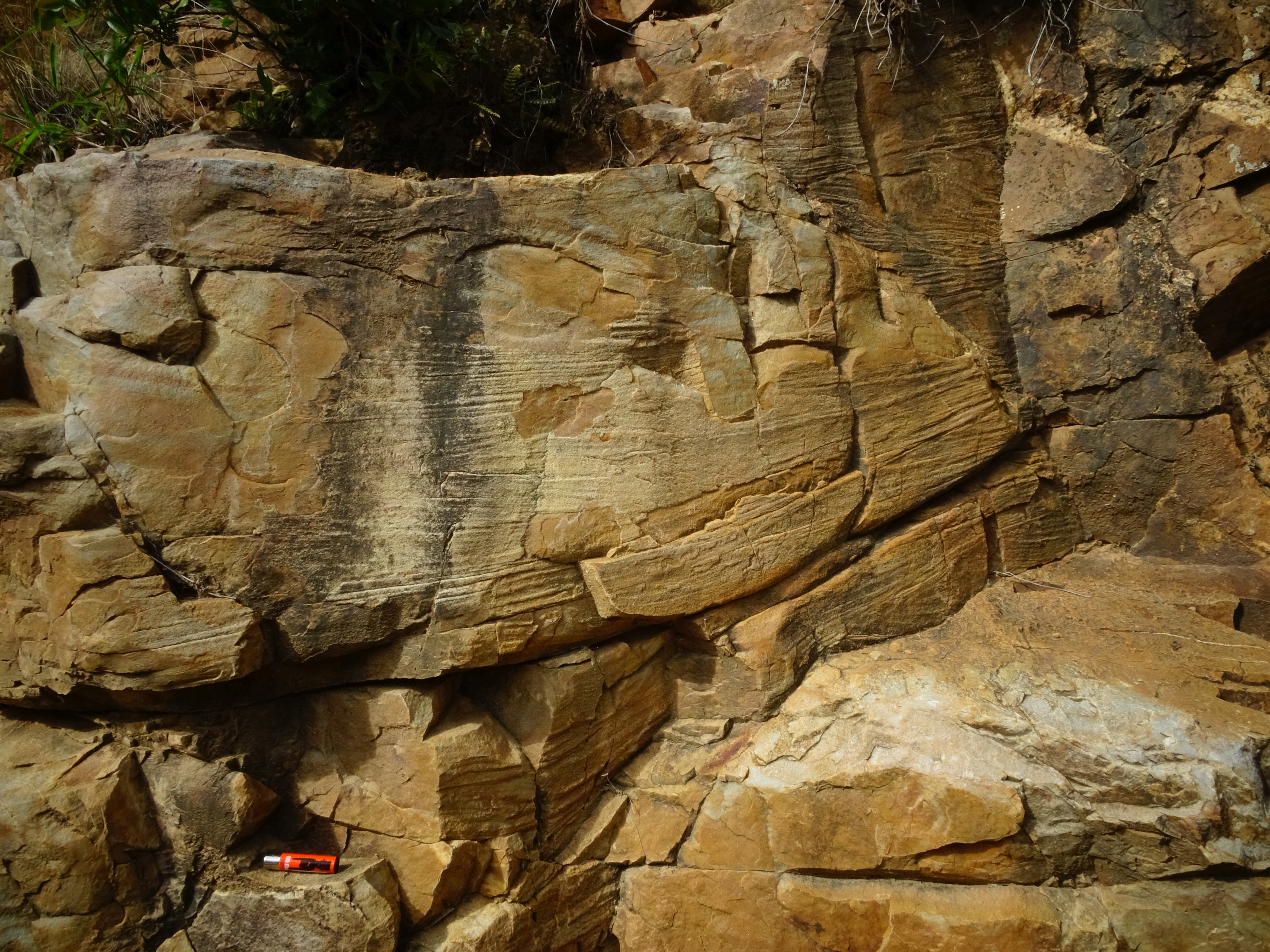 Close-up of the cross-bedded Late Jurassic to Early Cretaceous sandstones of the Arcabuco Formation, at the Sáchica rock shelter, Sáchica, Boyacá, Colombia